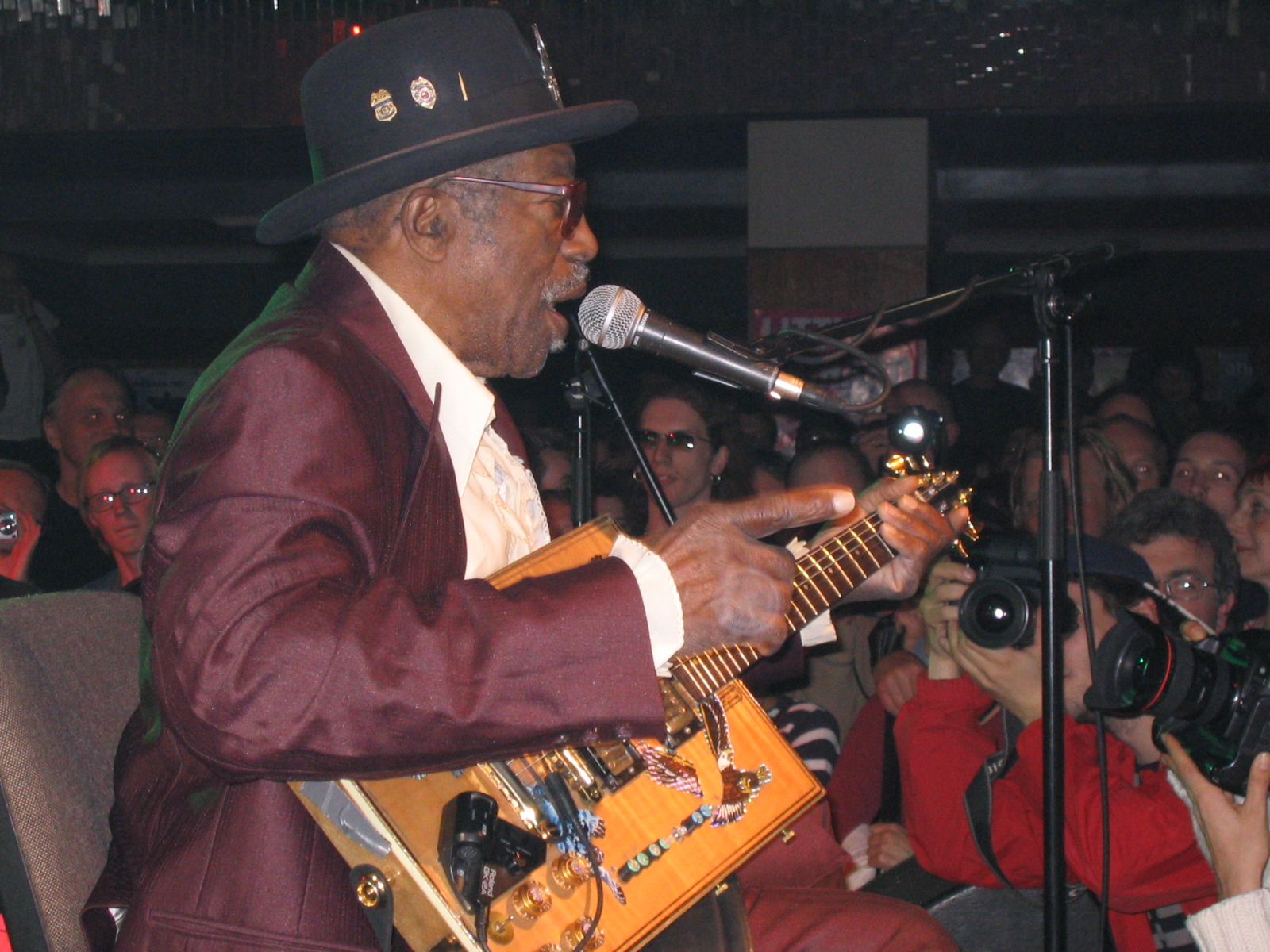 Bo Diddley in Prague (Lucerna Bar)